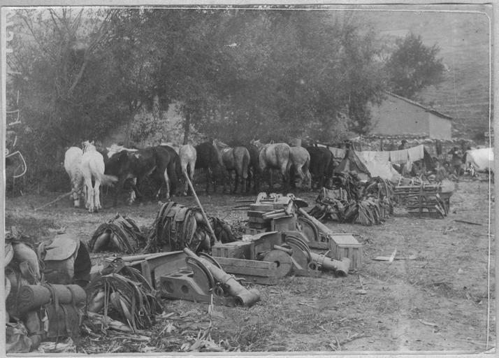 Village of Dolno Kleshtino or Kato Klisi, Greece